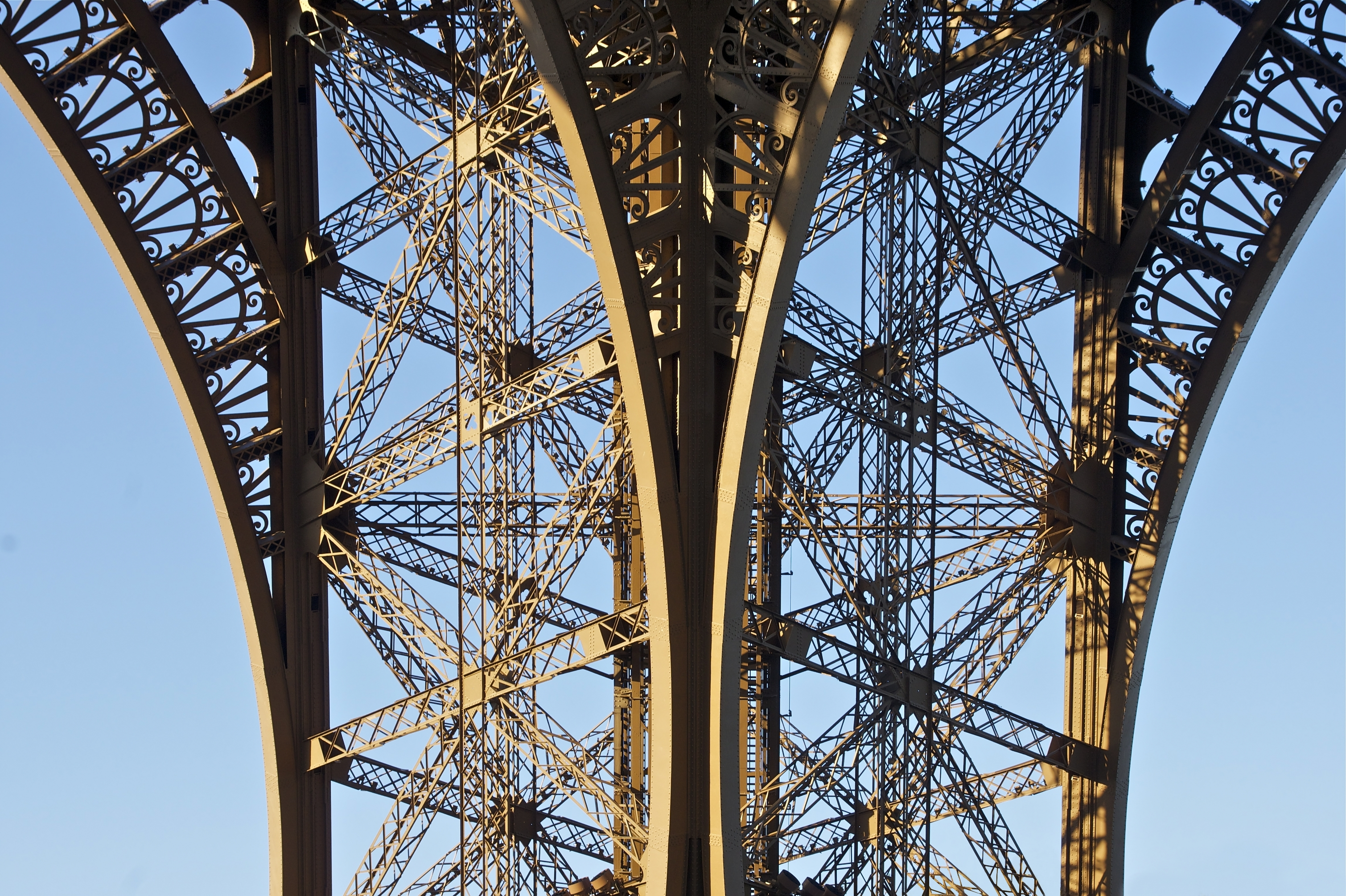 Eiffel Tower structural detail, northern pillar.